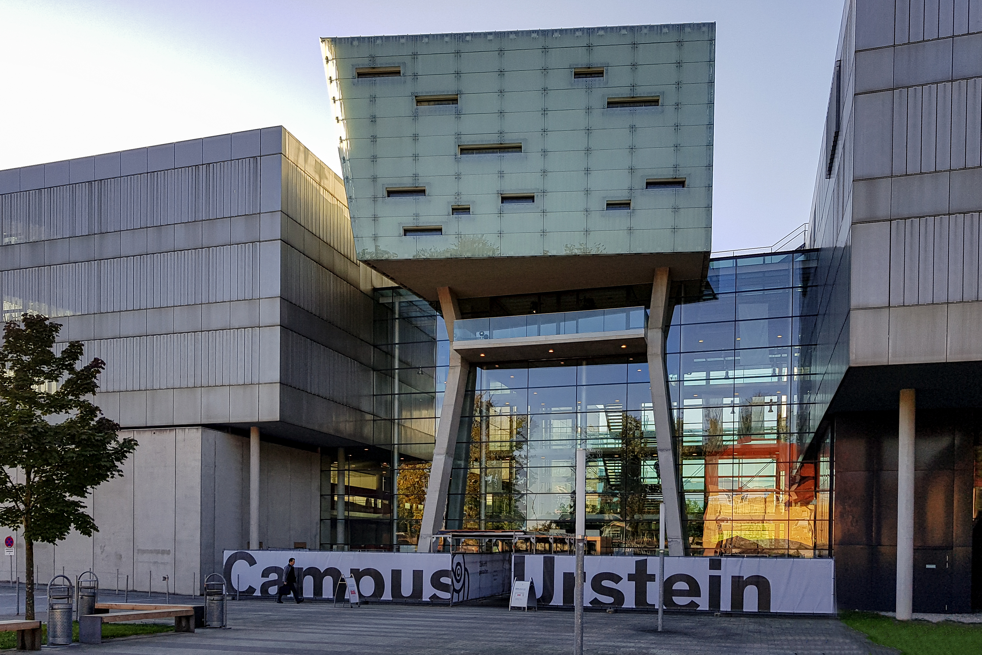 Main entrance Campus Urstein